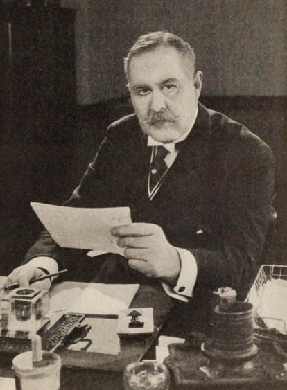 english-born actor and film director Wilfrid North - publicity still (cropped)